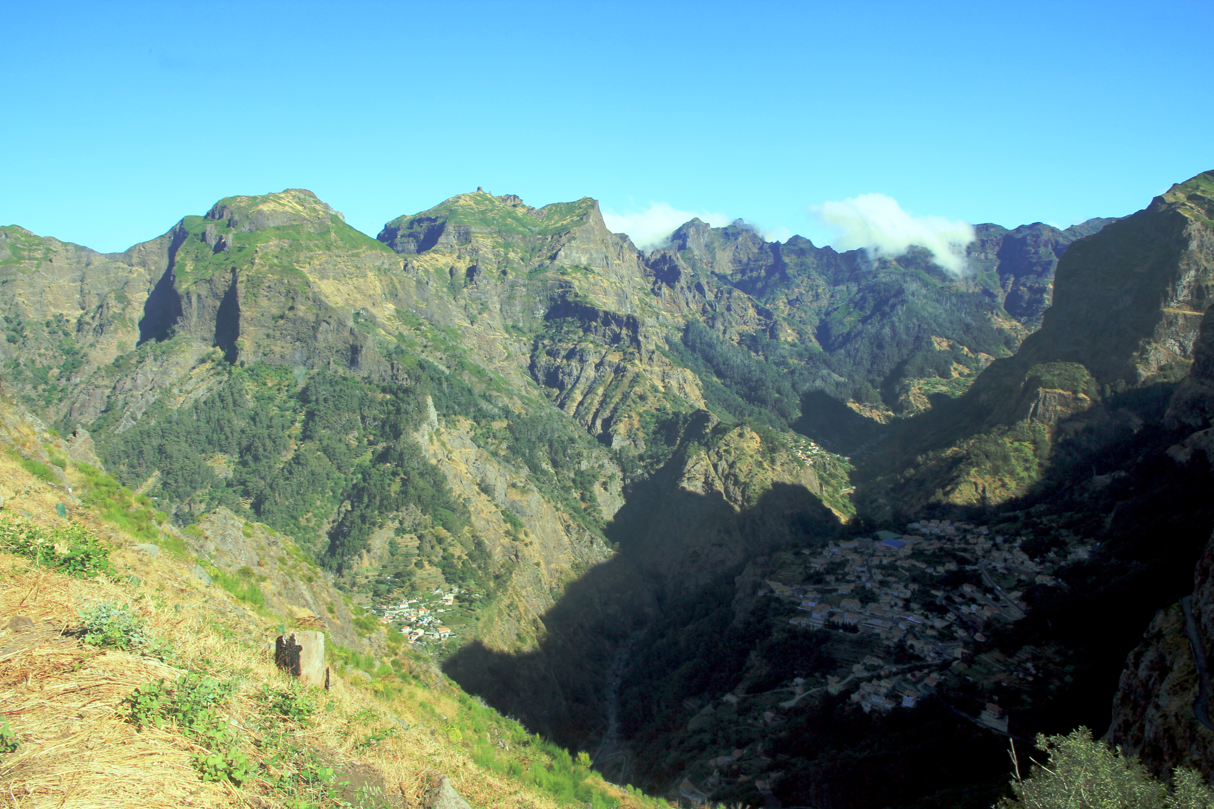 View from near of the point Eira do Serrado on the village Curral das Freiras in the central Madeira